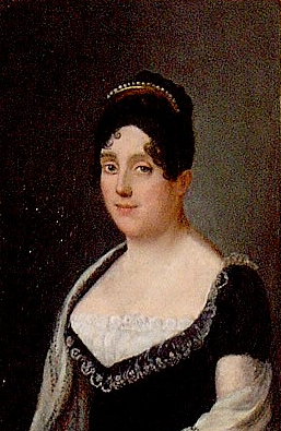 La comtesse Bérenger (1773-1828), épouse du Comte Jean Bérenger (1767-1850)